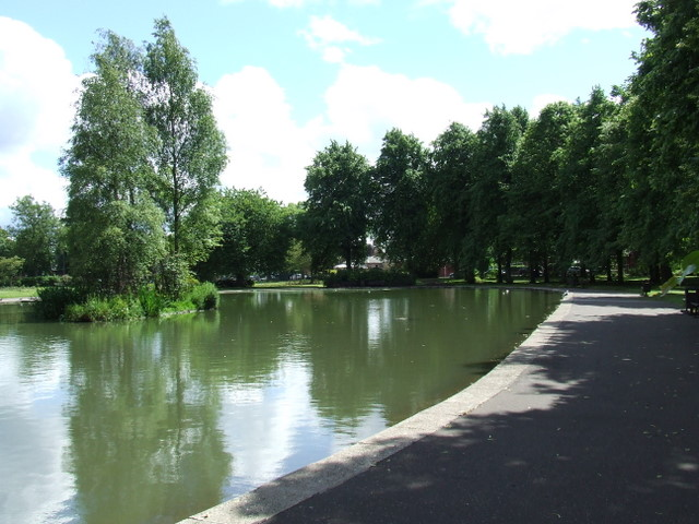 Pond in Robertson Park At the Craigielea Road end of the park.